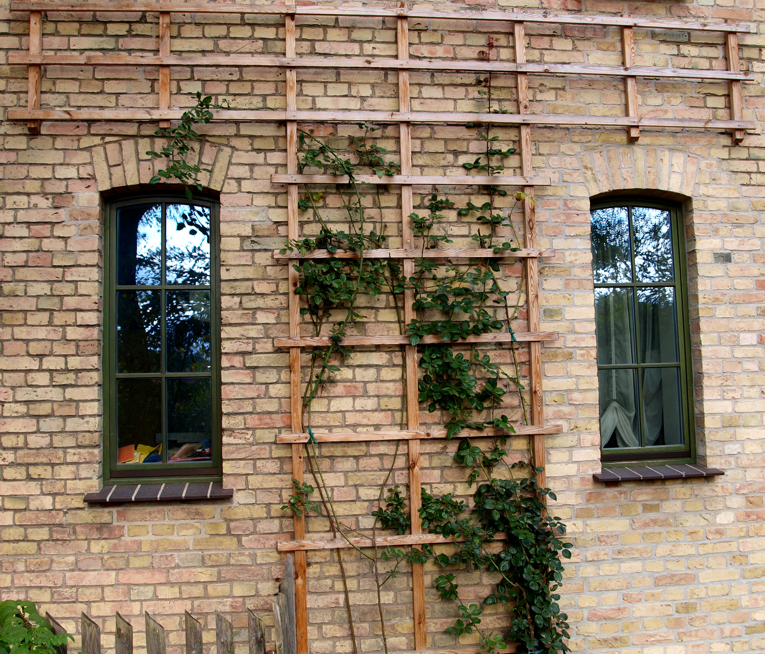 Climbing aid